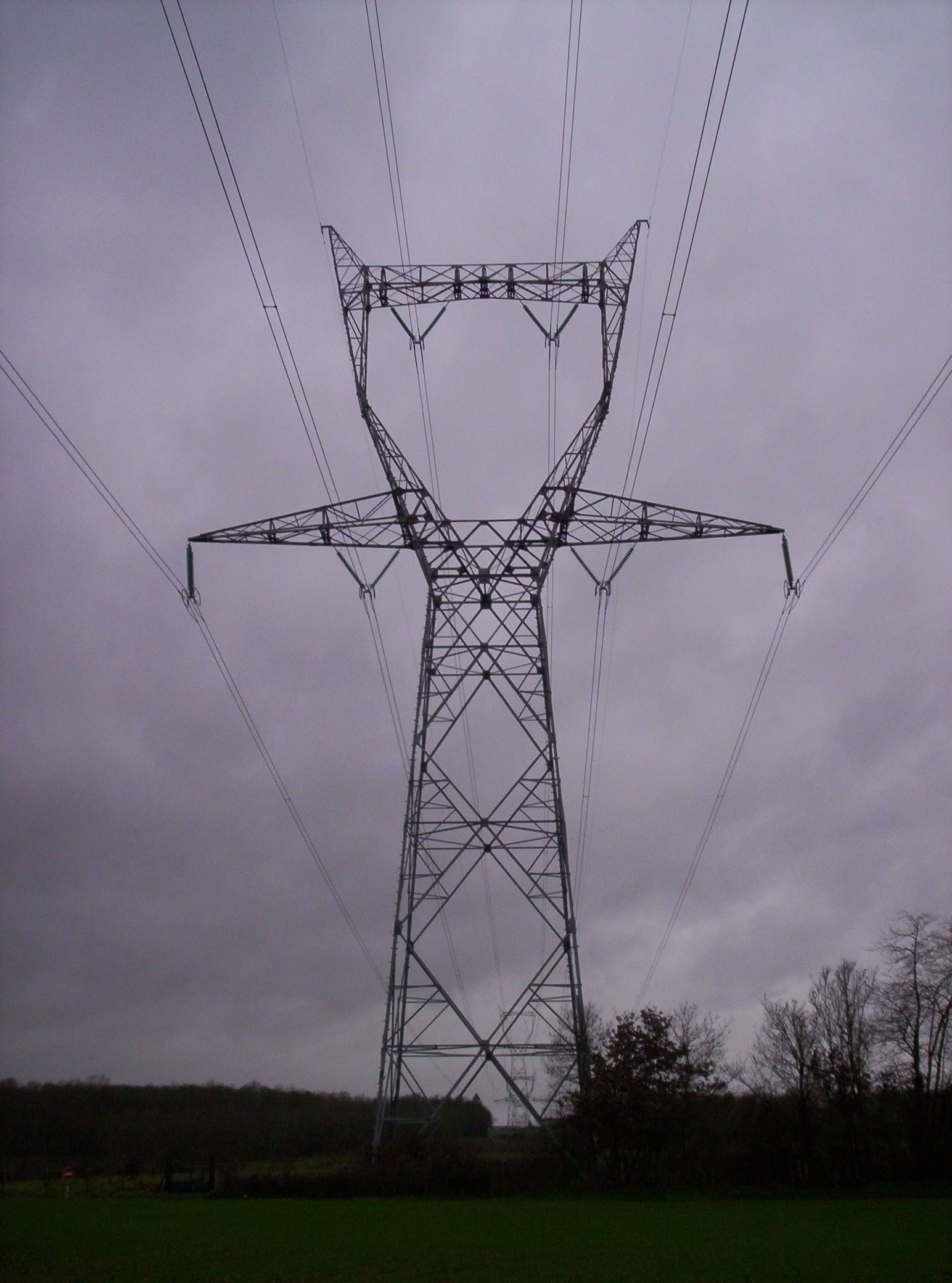 An electricity pylon in France, two-circuit 400 kV power line